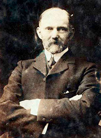 Thomas R Ferens Esquire